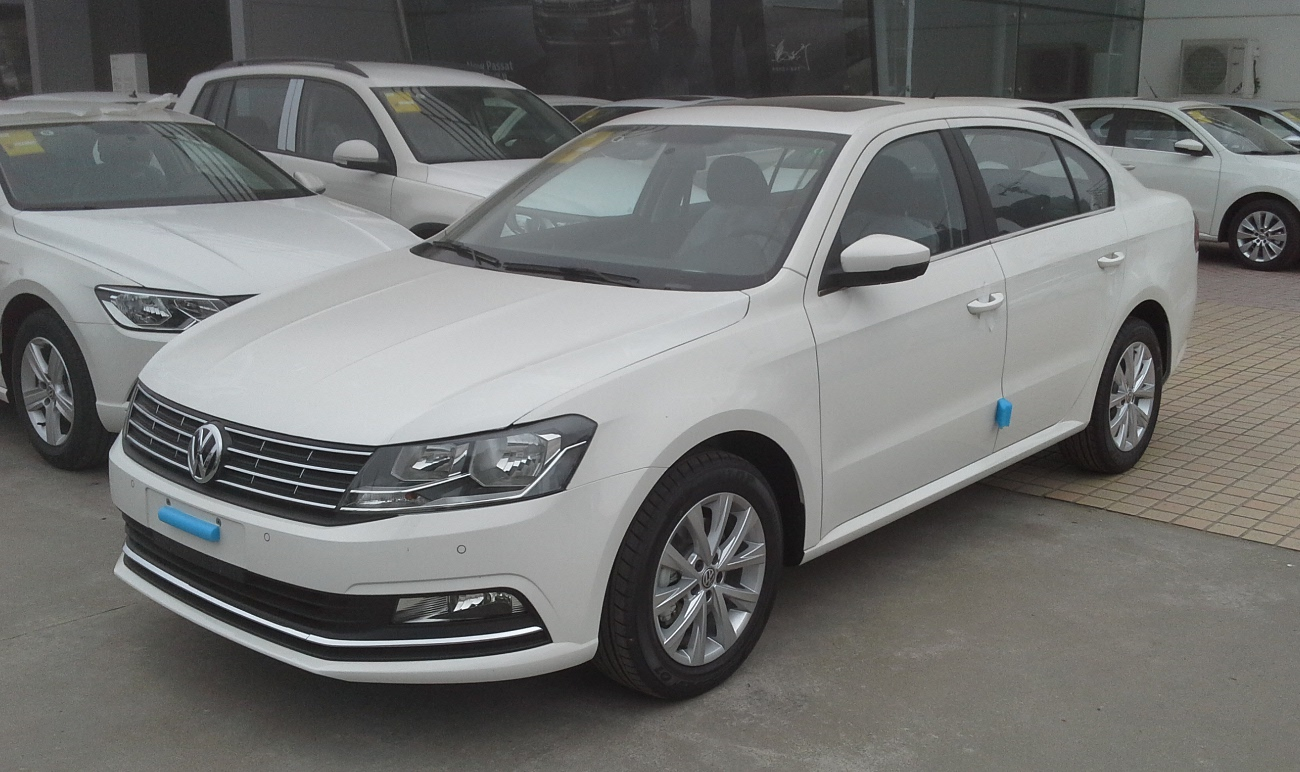 Volkswagen Lavida II facelift photographed in Zhanjiang, Guangdong province, China.